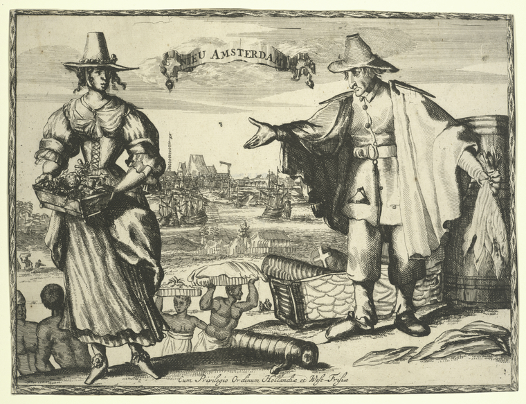 Nieu Amsterdam, c.1642-1643. Thought to be the second-oldest depiction of New Amsterdam, after File:Fort Amsterdam on Manhattan.jpg.